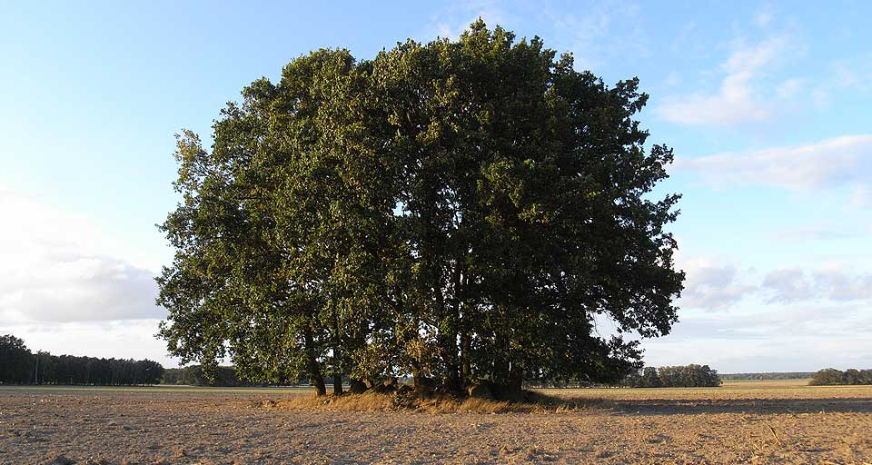 Leetze Steingrab 2, Chambered Tomb in Saxony-Anhalt